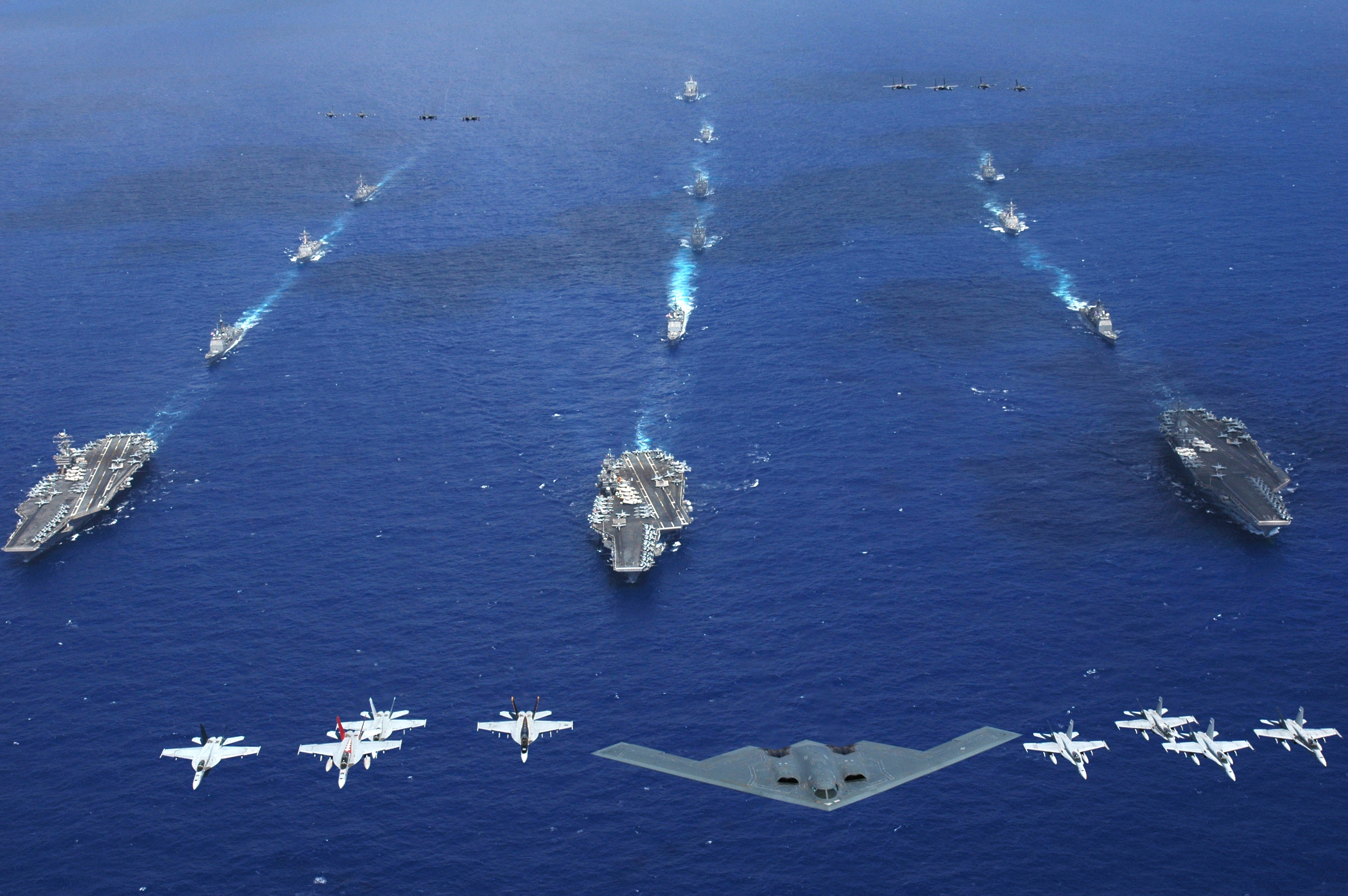 Philippine Sea - An Air Force B-2 bomber along with other aircraft from the Air Force, Navy and Marine Corps fly over the Kitty Hawk, Ronald Reagan and Abraham Lincoln Carrier Strike groups during the photo portion of Exercise Valiant Shield 2006. Valiant Shield trains joint U.S. military forces to detect, locate, track and engage units at sea, in the air and on land.